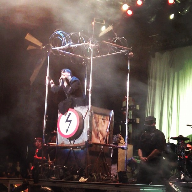 Antichrist Superstar live Twins of Evil Tour